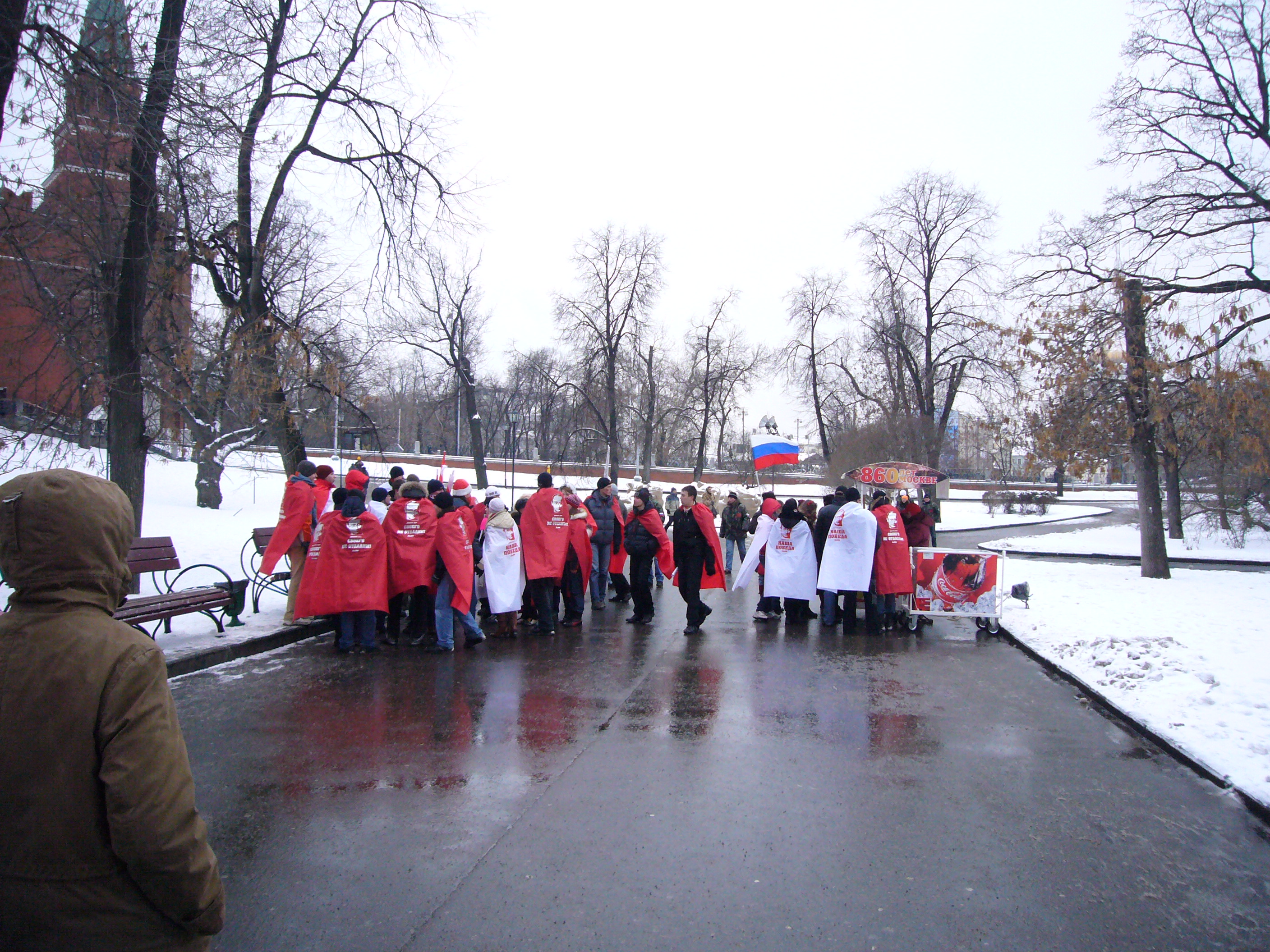 2007 Russian Duma Elections Campaign: next day after elections: a picket of pro-Putin youth activists in the Alexandrovsky Sad near the Kremlin. On their backs one can see Putin's portrait and words: 'We won't give away one of ours' and 'Our victory', December 3, 2007, Moscow, Russia